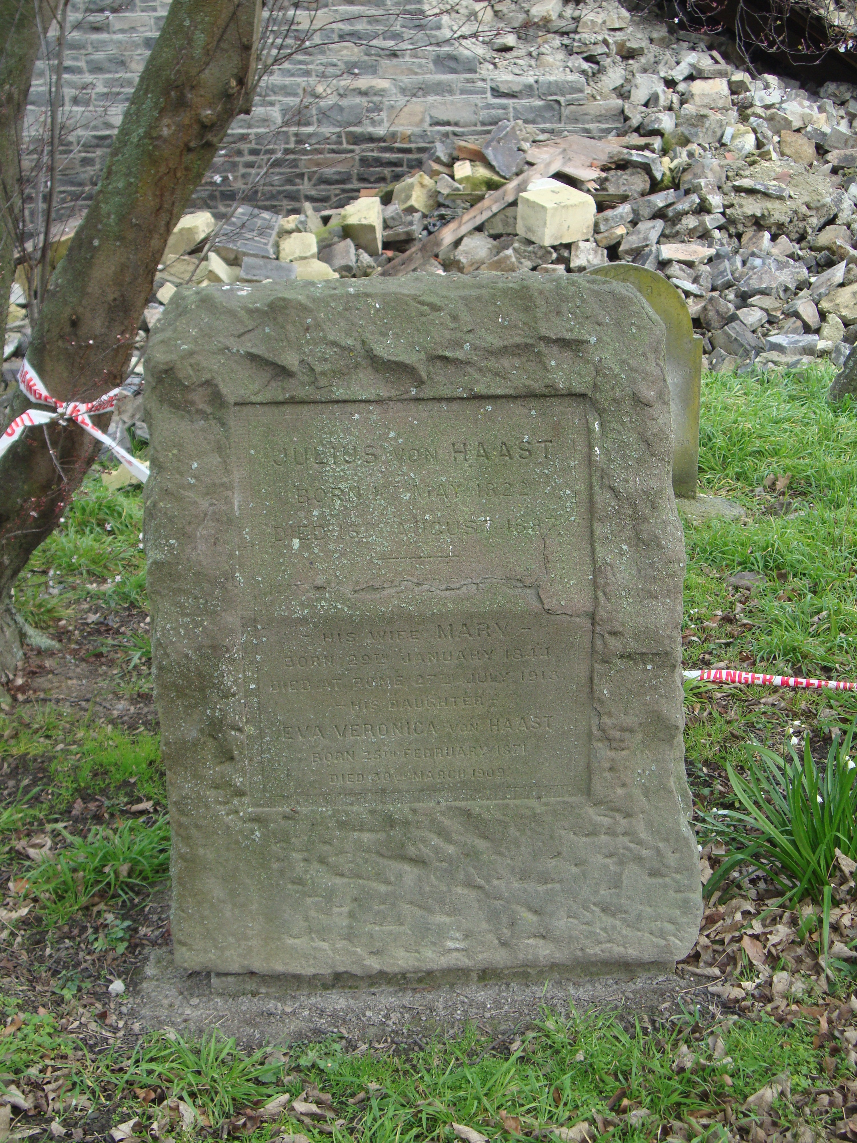 Grave of Julius von Haast at Holy Trinity Church in Christchurch.